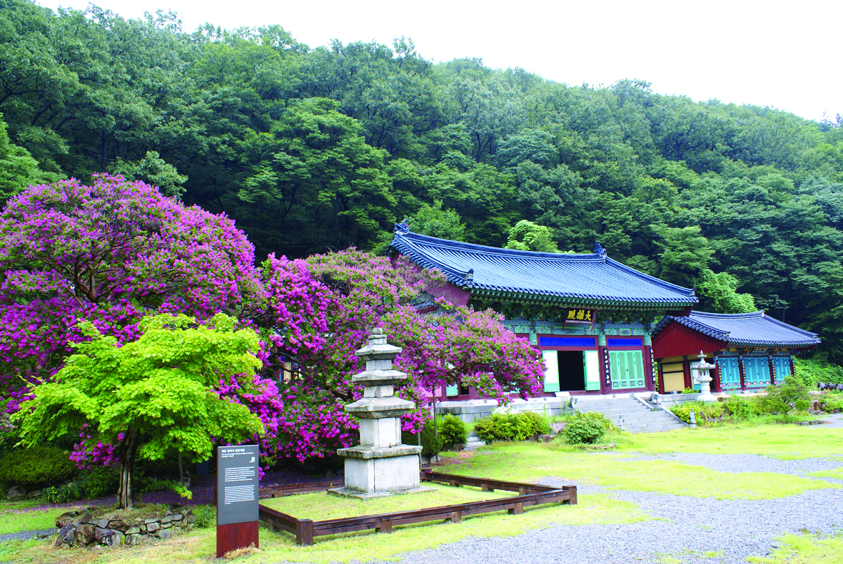 Banya temple in South Korea